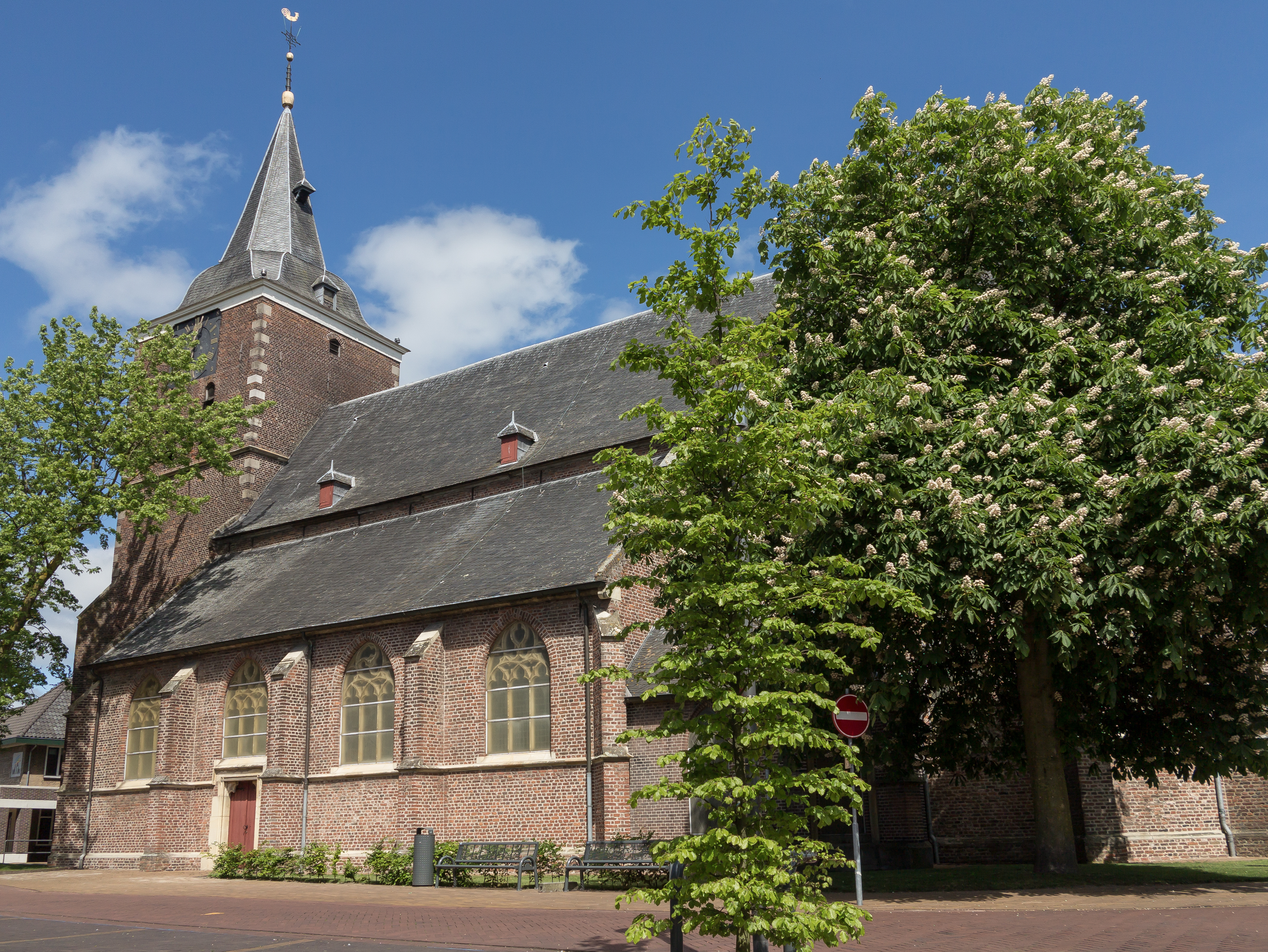 Varsseveld, church: de Grote of Laurentiuskerk